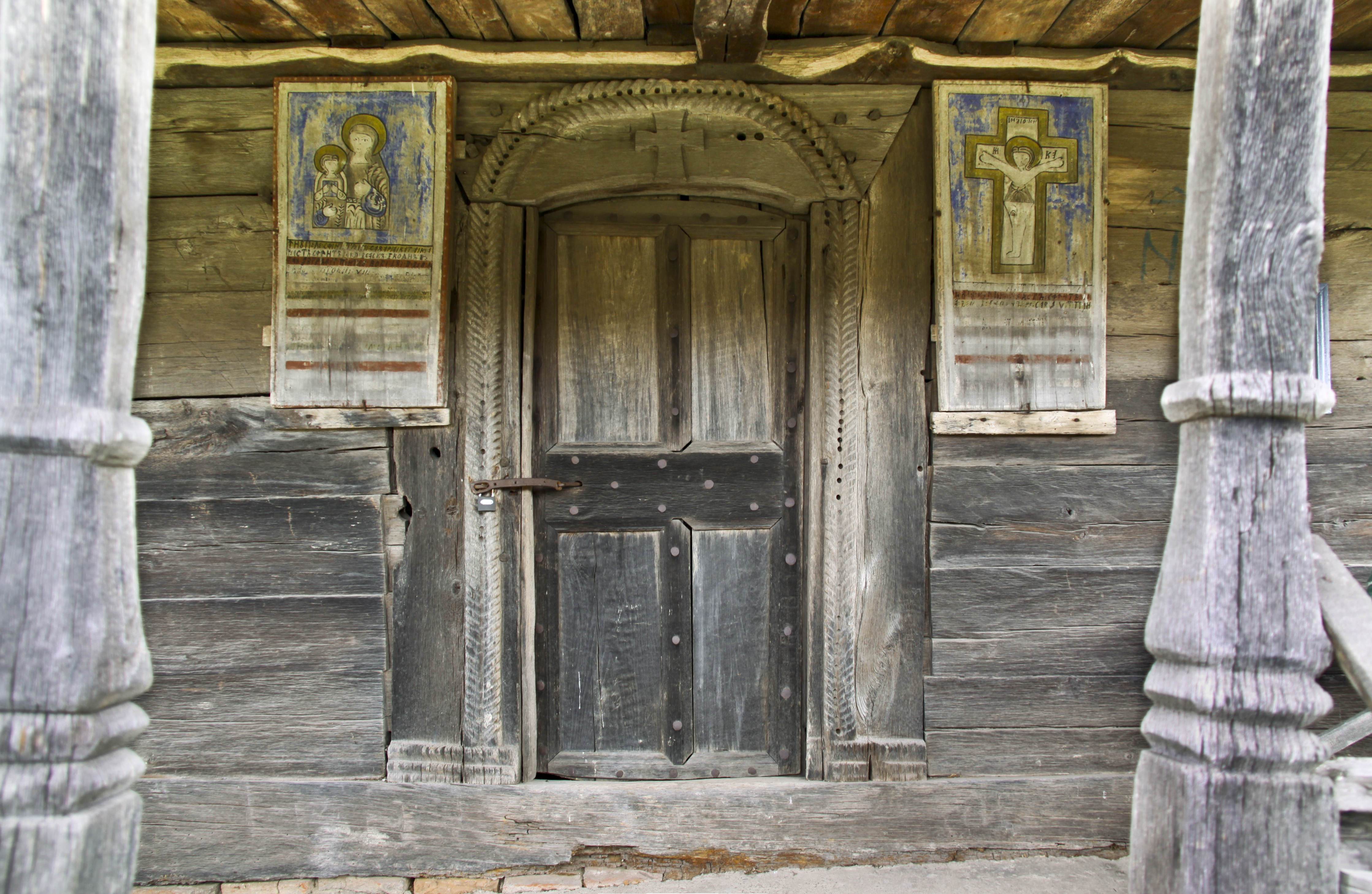 Ioaniceşti-Găbrieni, Argeş county, Romani: the wooden church.